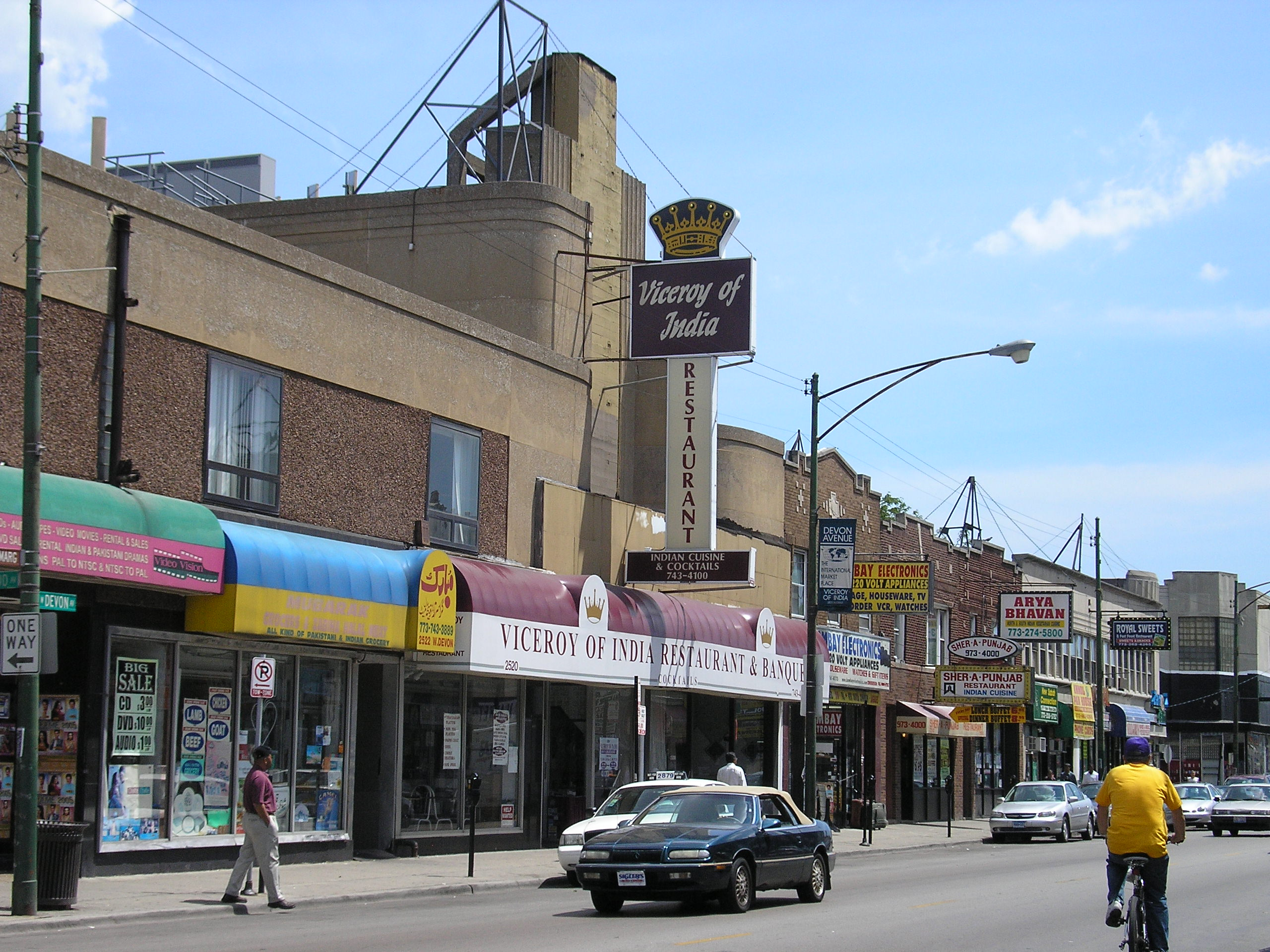 The vicinity of 2520 W Devon Avenue, in Chicago's West Ridge community area.